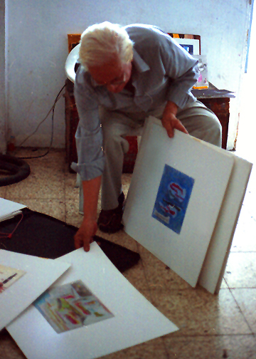 Luis Enrique Tabara, Ecuadorian artist, in his studio showing some of his sketches